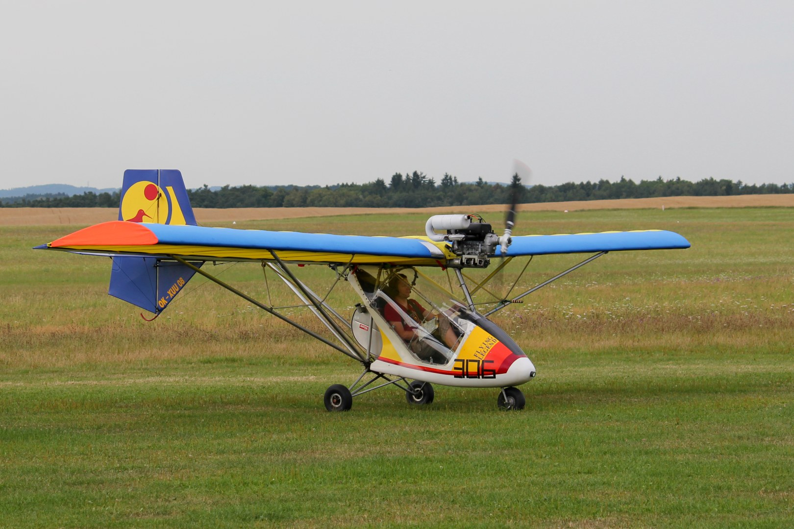 Letov LK-2 Sluka taxiing on LKBE (Benešov) airfield. It is the original model with a swing-tube main gear, 25L fuel tank replaced with the 50L upgrade, custom added closed canopy of the "M" model and original Rotax 447-1V with custom 2-bladed composite prop.